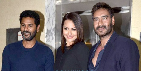 Team of 'Action Jackson' meets the media